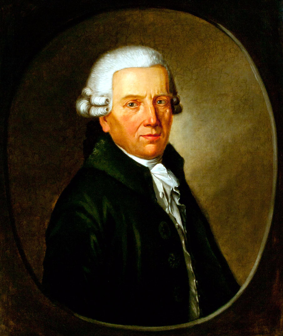 Justus Christian Ludwig von Schellwitz (1735-1797) German Jurist